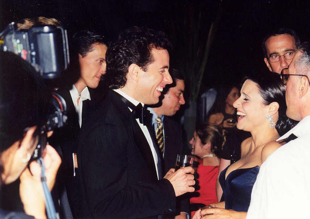 Jerry Seinfeld and Julia Louis-Dreyfus at the 1997 Emmy Awards